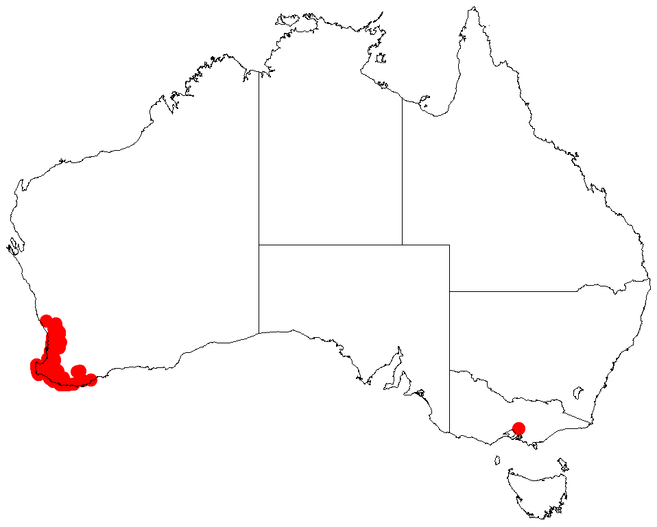 Acacia urophylla occurrence data from Australasia Virtual Herbarium downloaded from on 8 December 2018